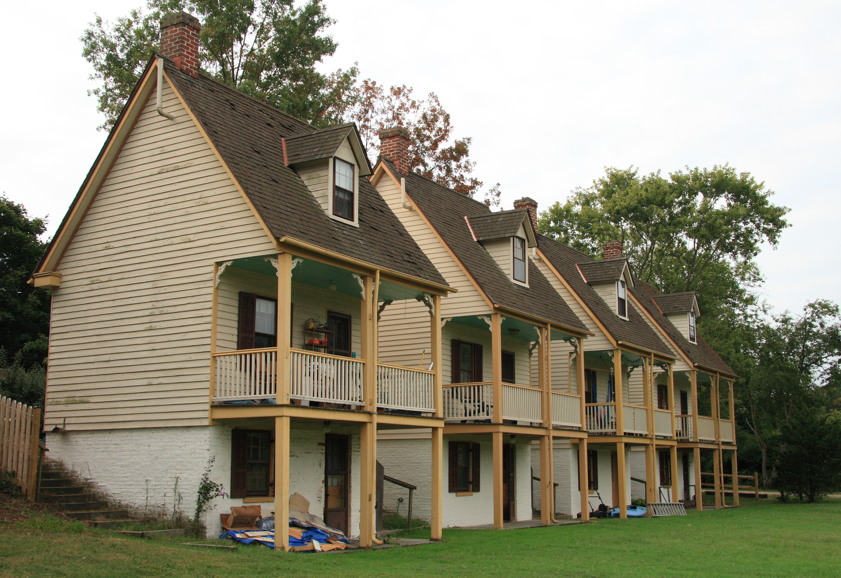 Captain's Houses in Centreville, Maryland, USA